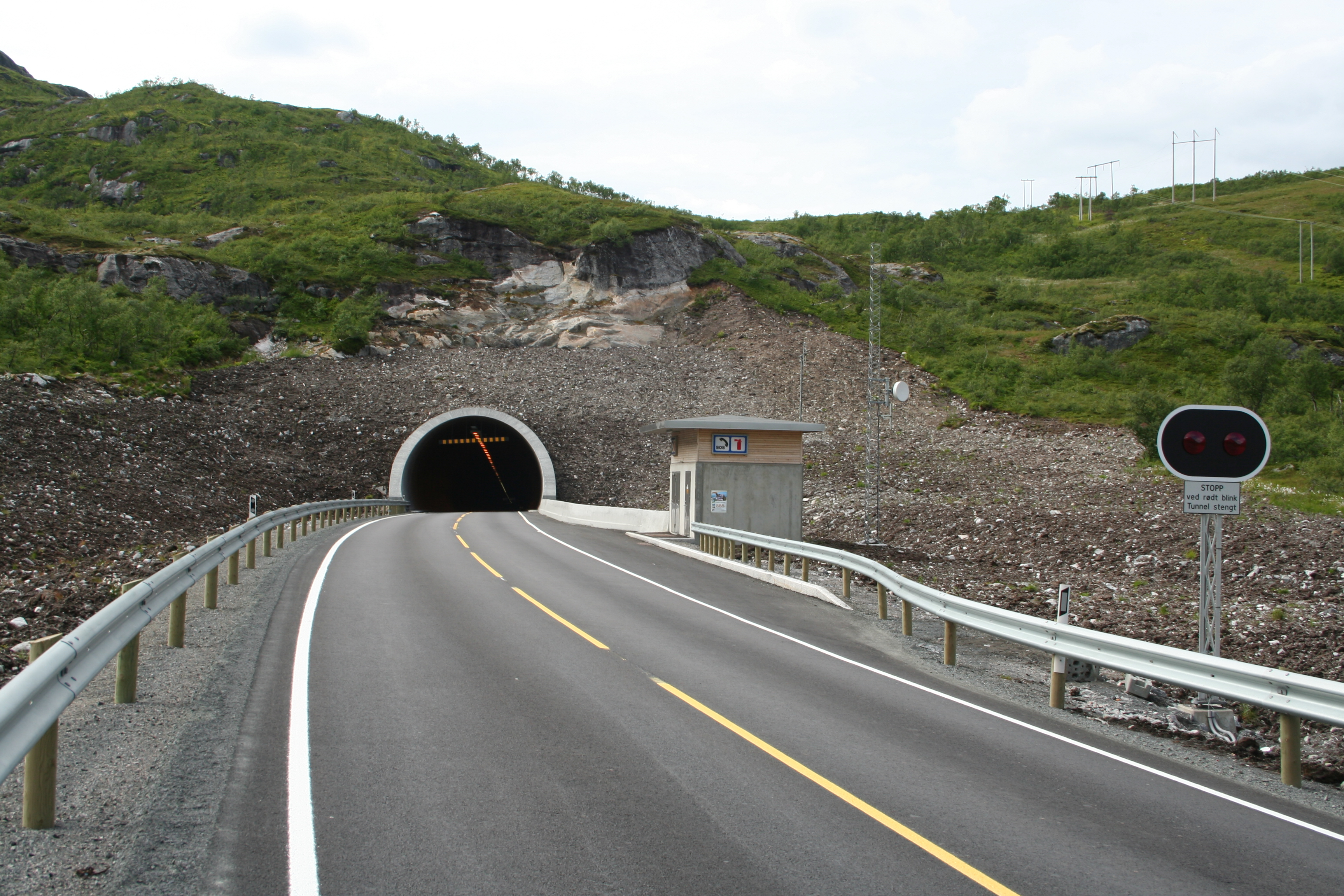 The eastern portal of the Sørdalen Tunnel in Norway. The tunnel is 6338 metres long.